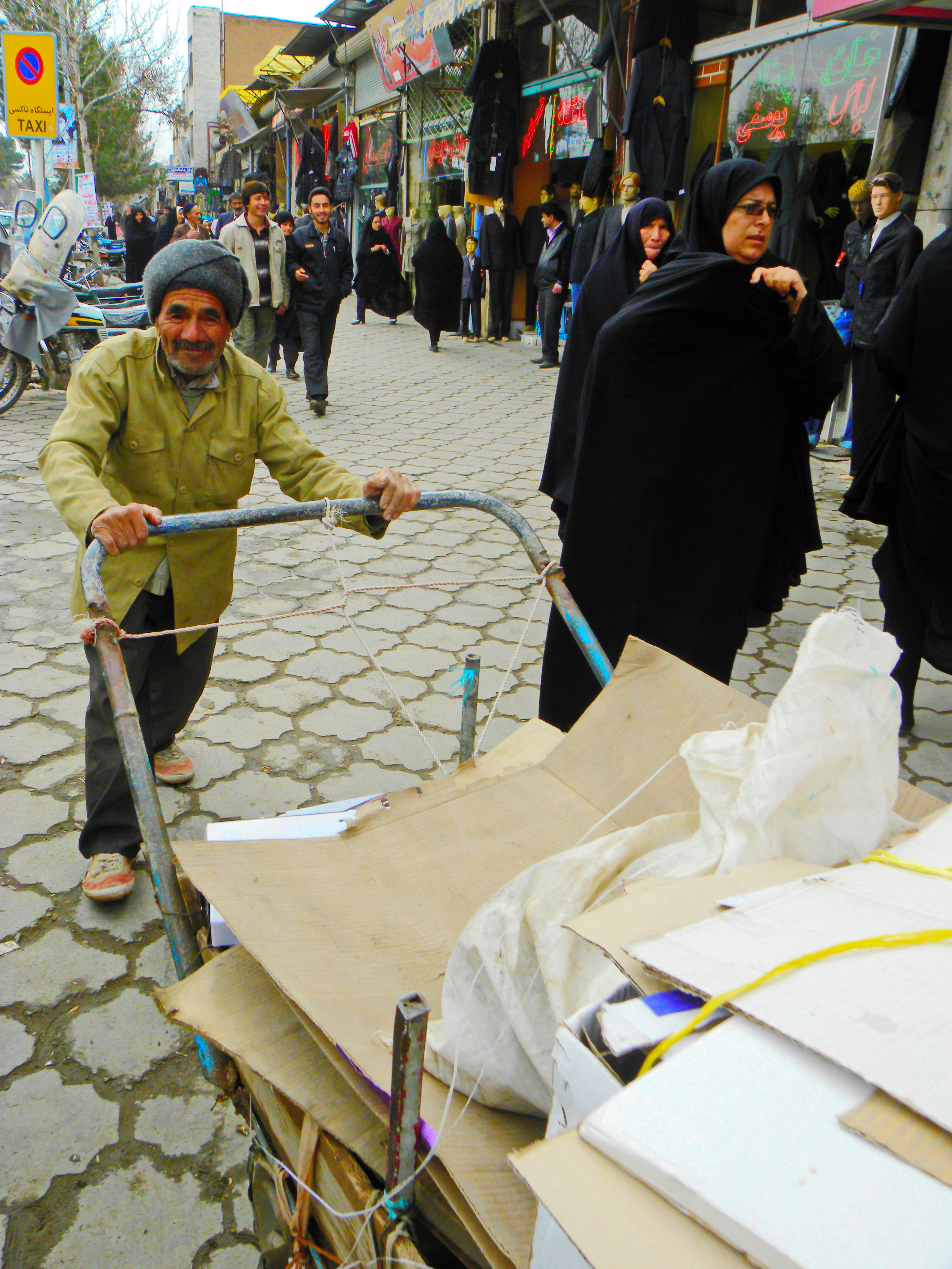 Drayman in Imam Khomeini St 1. at Nishapur